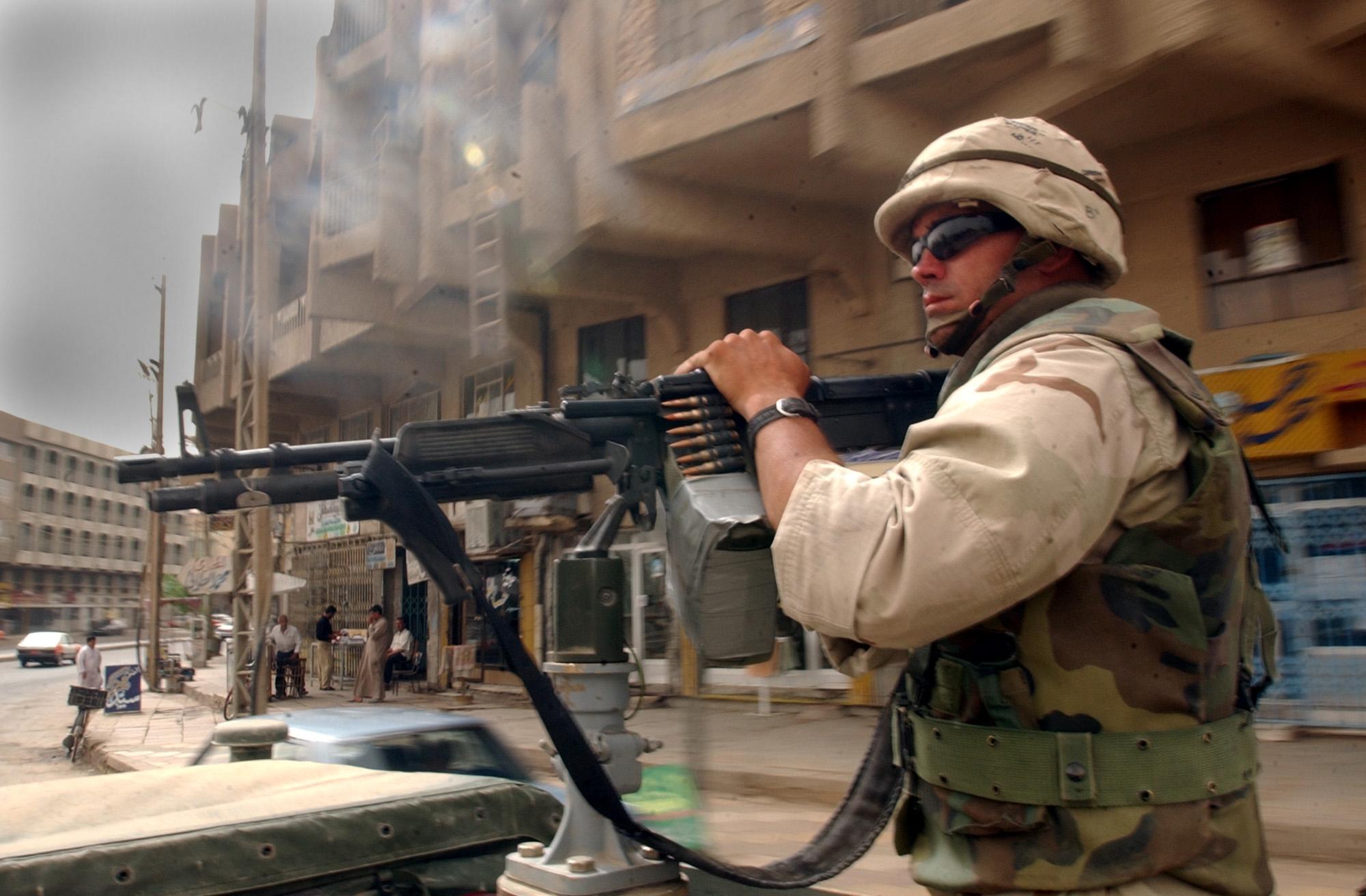 Al Hillah, Iraq (May 27, 2003) -- Engineering Aide 1st Class Scott Lyerla assigned to Naval Mobile Construction Battalion Fifteen (NMCB-15) helps to guard his convoy as it travels through Al Hillah in support of Operation Iraqi Freedom. Operation Iraqi Freedom is the multi-national coalition effort to liberate the Iraqi people, eliminate Iraq's weapons of mass destruction, and end the regime of Saddam Hussein. U.S. Navy photo by Photographer’s Mate 1st Class Arlo K. Abrahamson. (RELEASED)